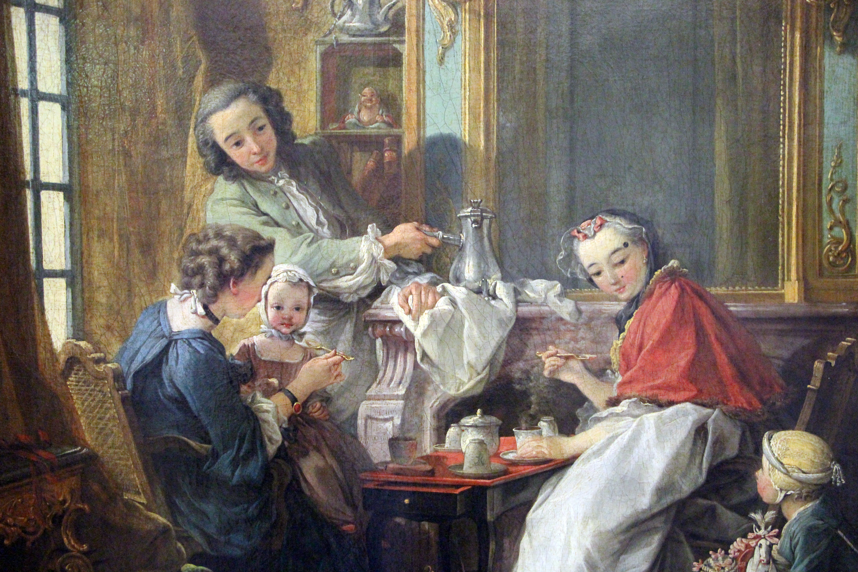 Louvre by room - French paintings